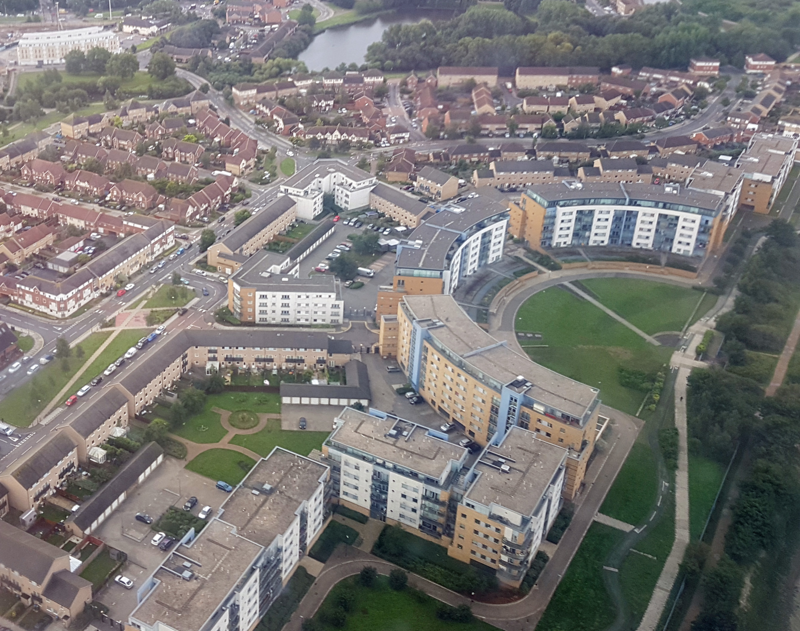 Aerial view of Thamesmead West, south-east London, shortly before landing at London City Airport.